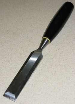 Image of a poor quality steel woodworking chisel.